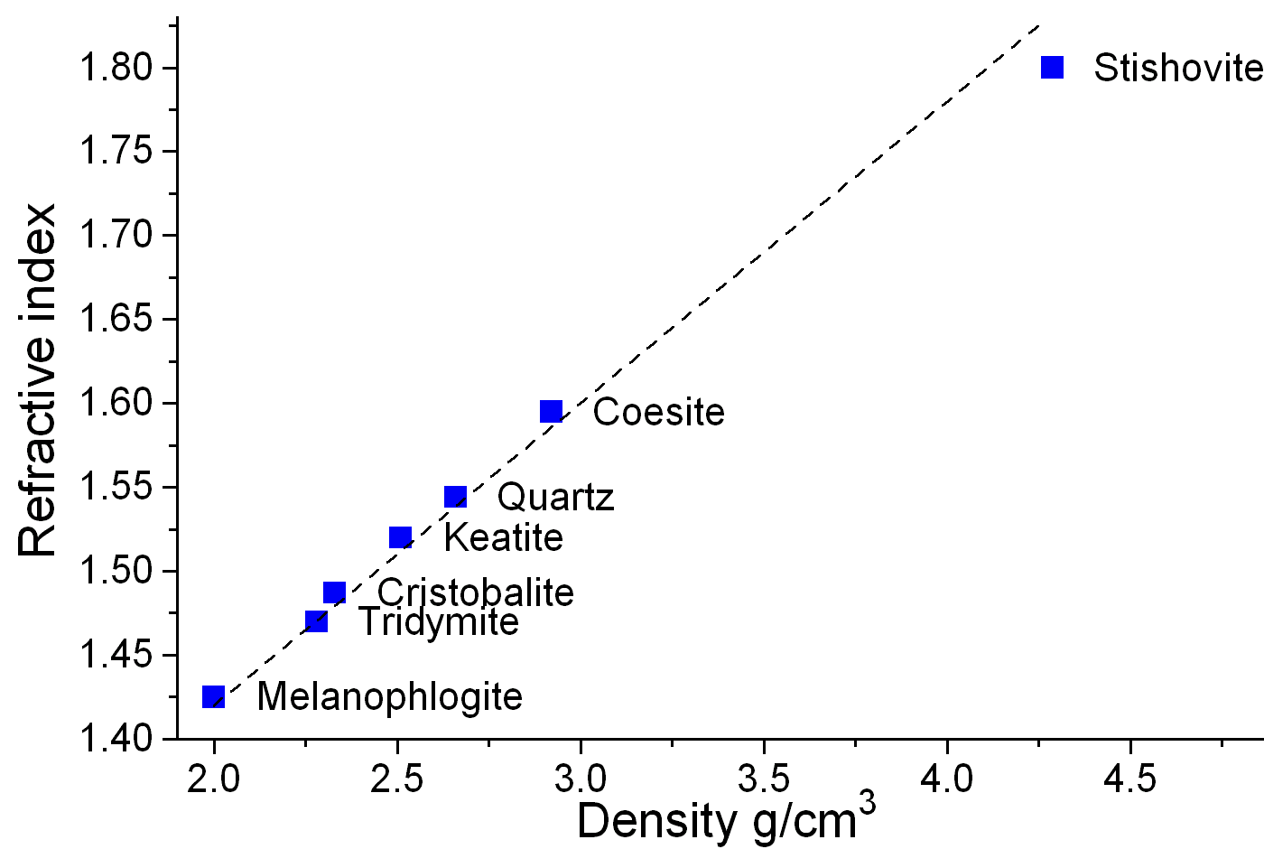 Relation between refractive index and density for some forms of quartz